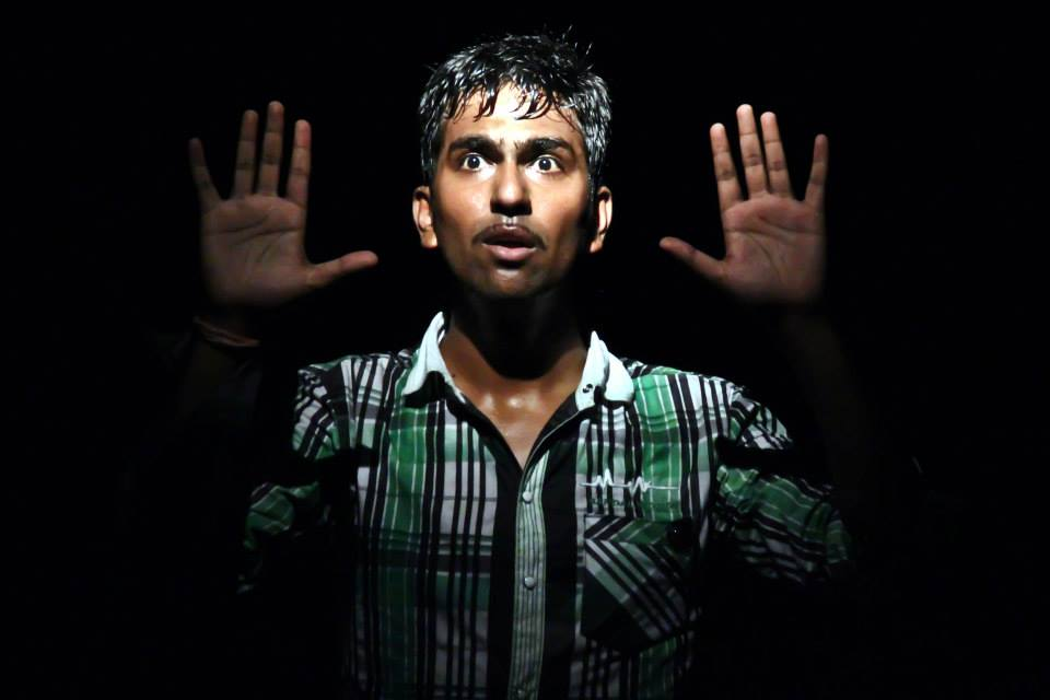 Still from Solo Play 'HODI'(Ship)